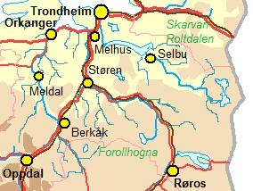 Map of rivers (from left) Orkla, Gaula, and Nea-Nidelva. Sör-Tröndelag (Norway). map produced as derivative of: issued by the Norwegian Map Authority, and lisenced explicitely in CC-BY-SA_3.0.